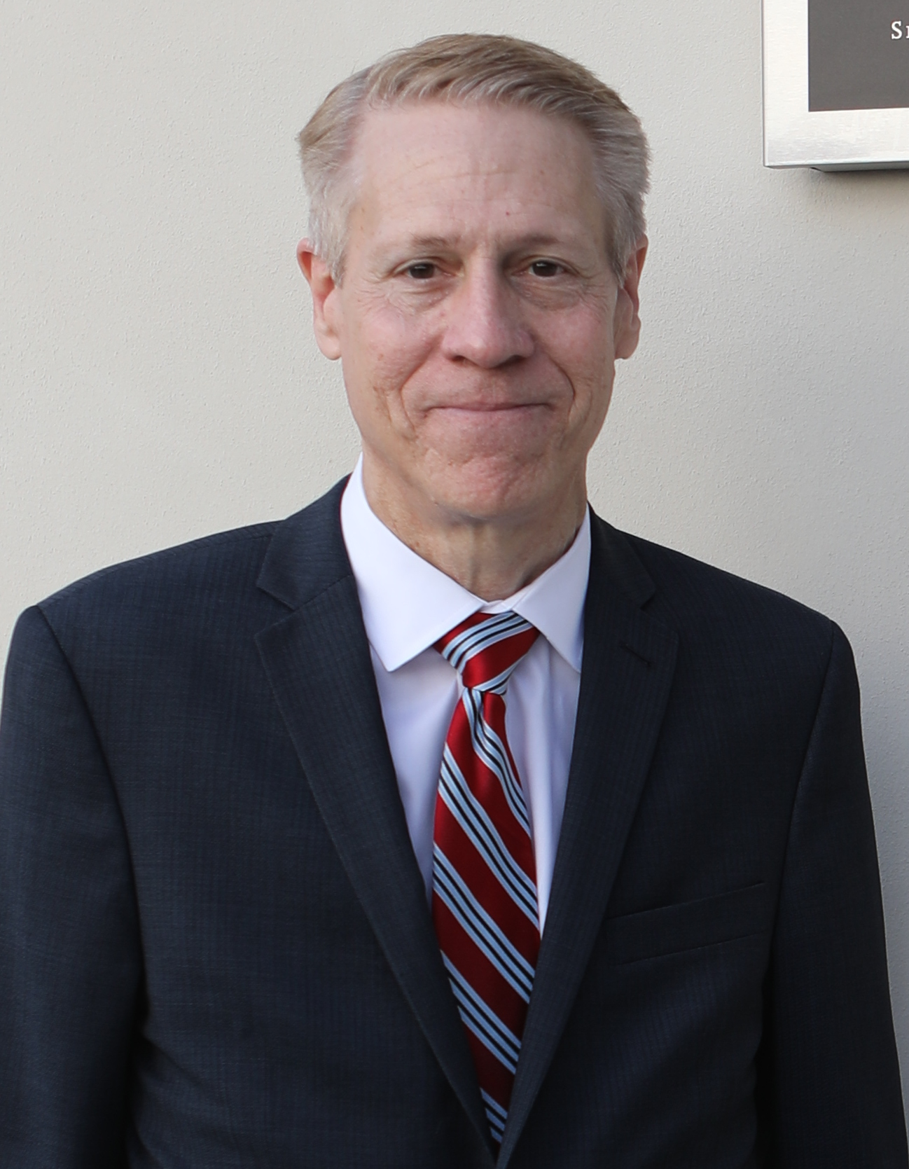 John Heubusch at the Ronald Reagan Terrace on the Berlin Embassy’s rooftop